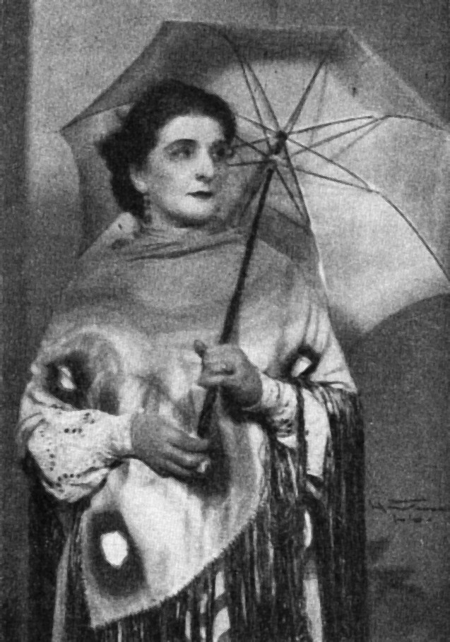 Agnes Mowinckel as Ellida Wangel in Ibsen's The Lady of the Sea on the avantgarde stage Balkonen, 1928.